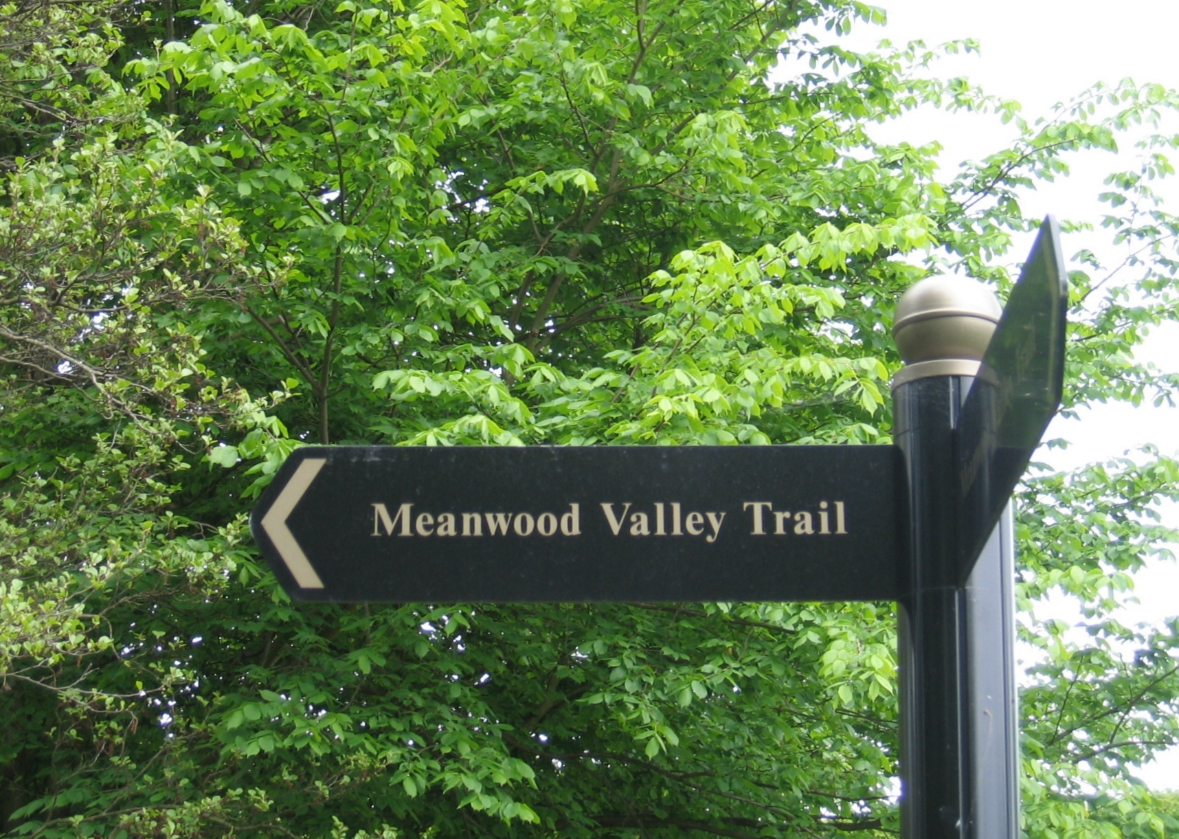 Sign on the Meanwood Trail, Leeds